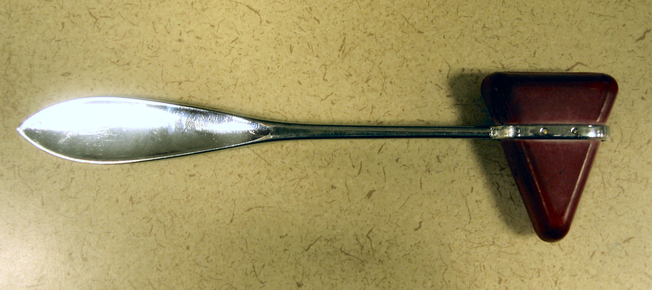 Tomahawk reflex hammer. -- Samir ???? 05:44, 20 June 2006 (UTC)